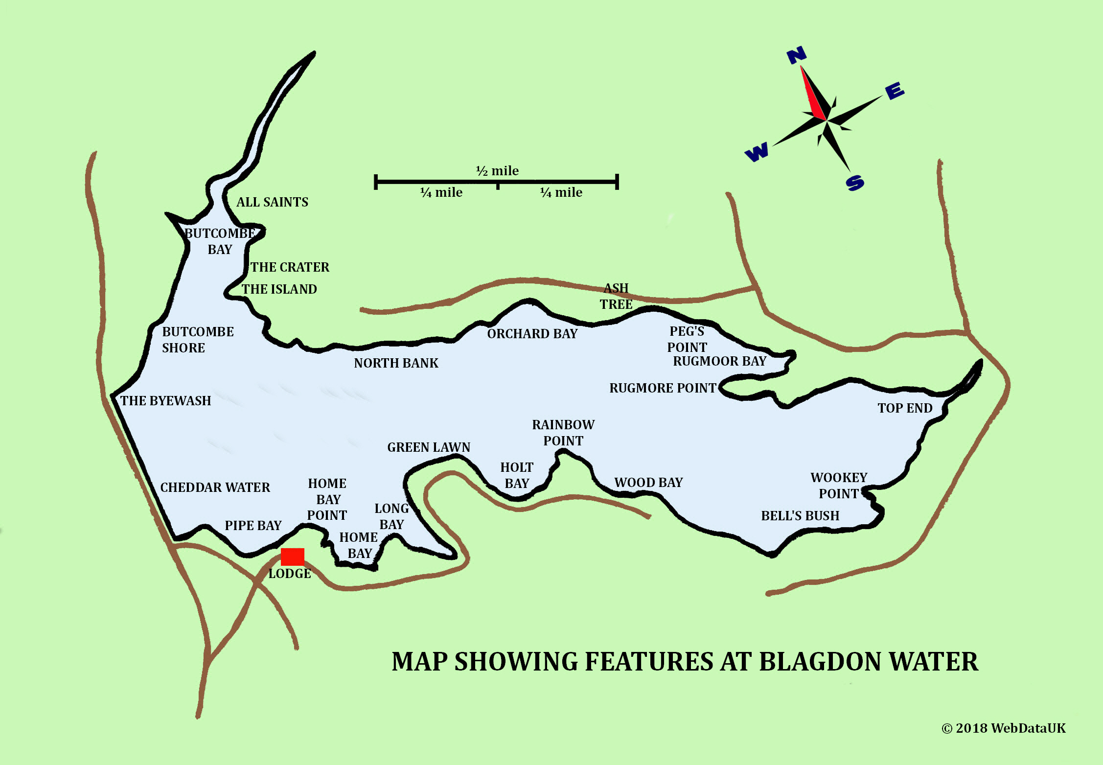 Angler's map of Blagdon Lake showing prominent features